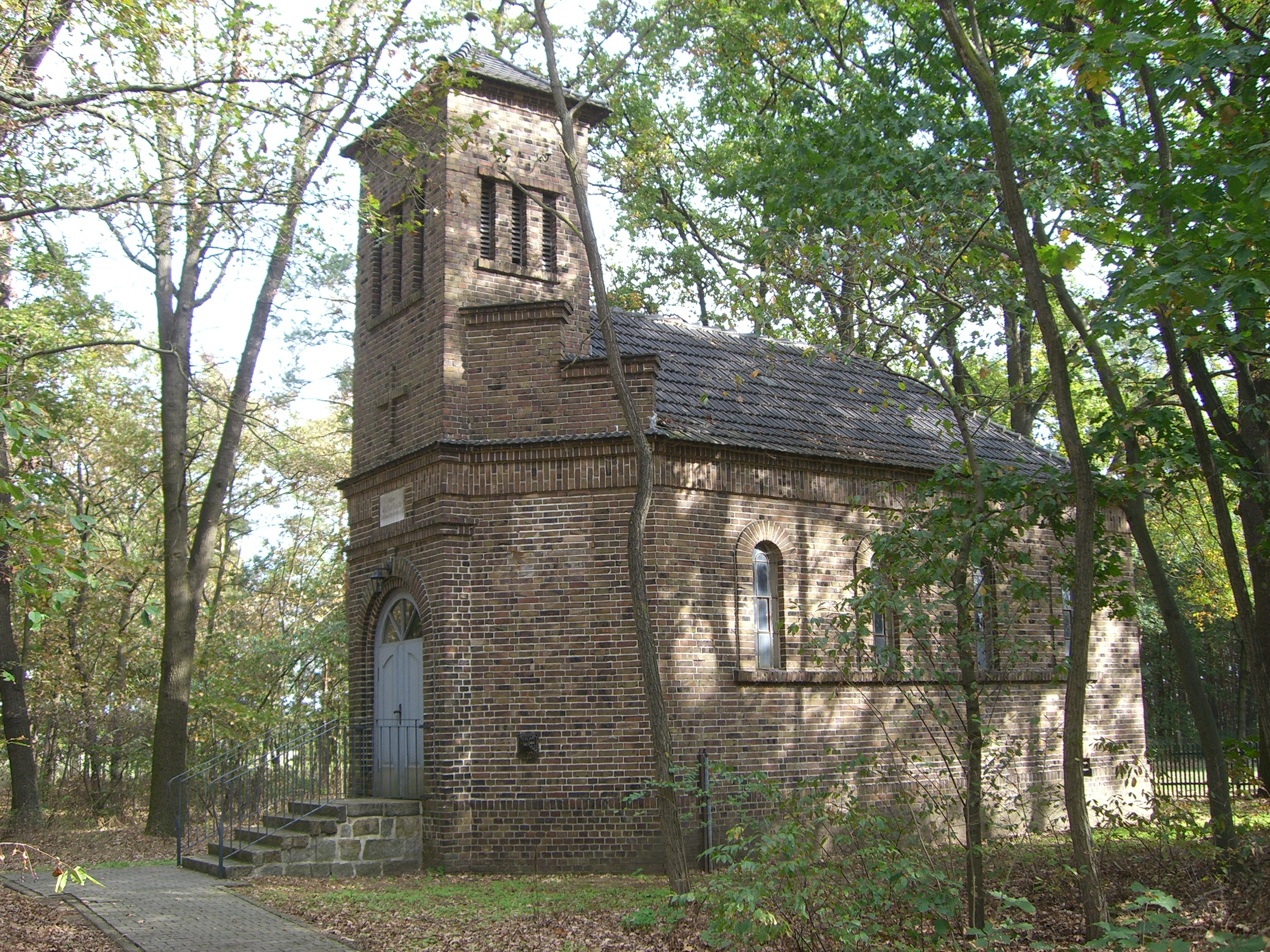 Church of Premsendorf